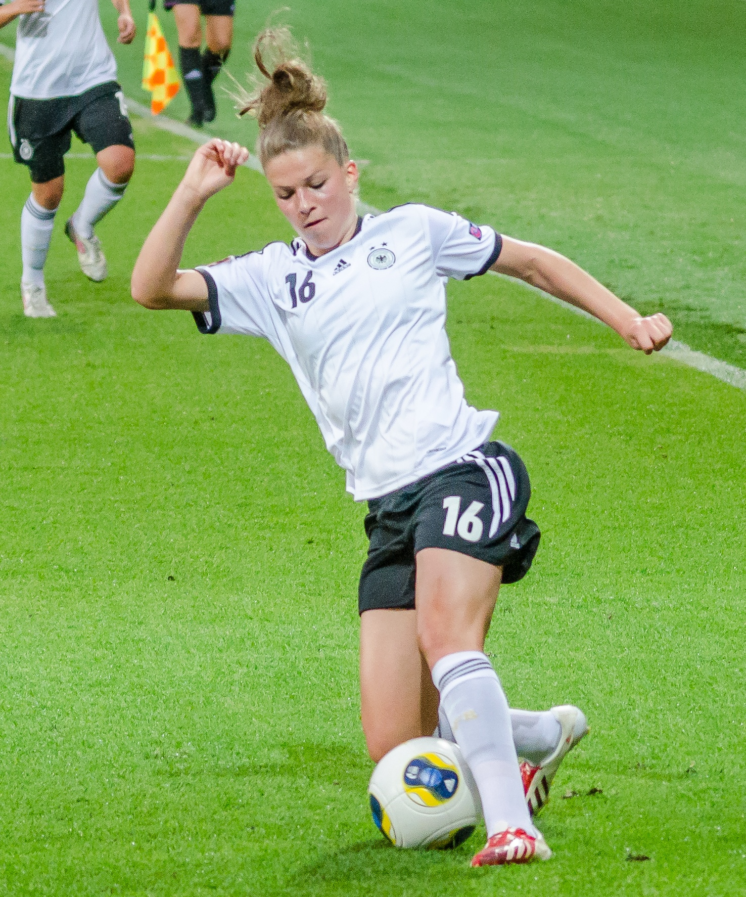 German football winger Melanie Leupolz playing a Group stage game against Iceland in the UEFA Women's Euro 2013 at Myresjöhus Arena in Växjö.